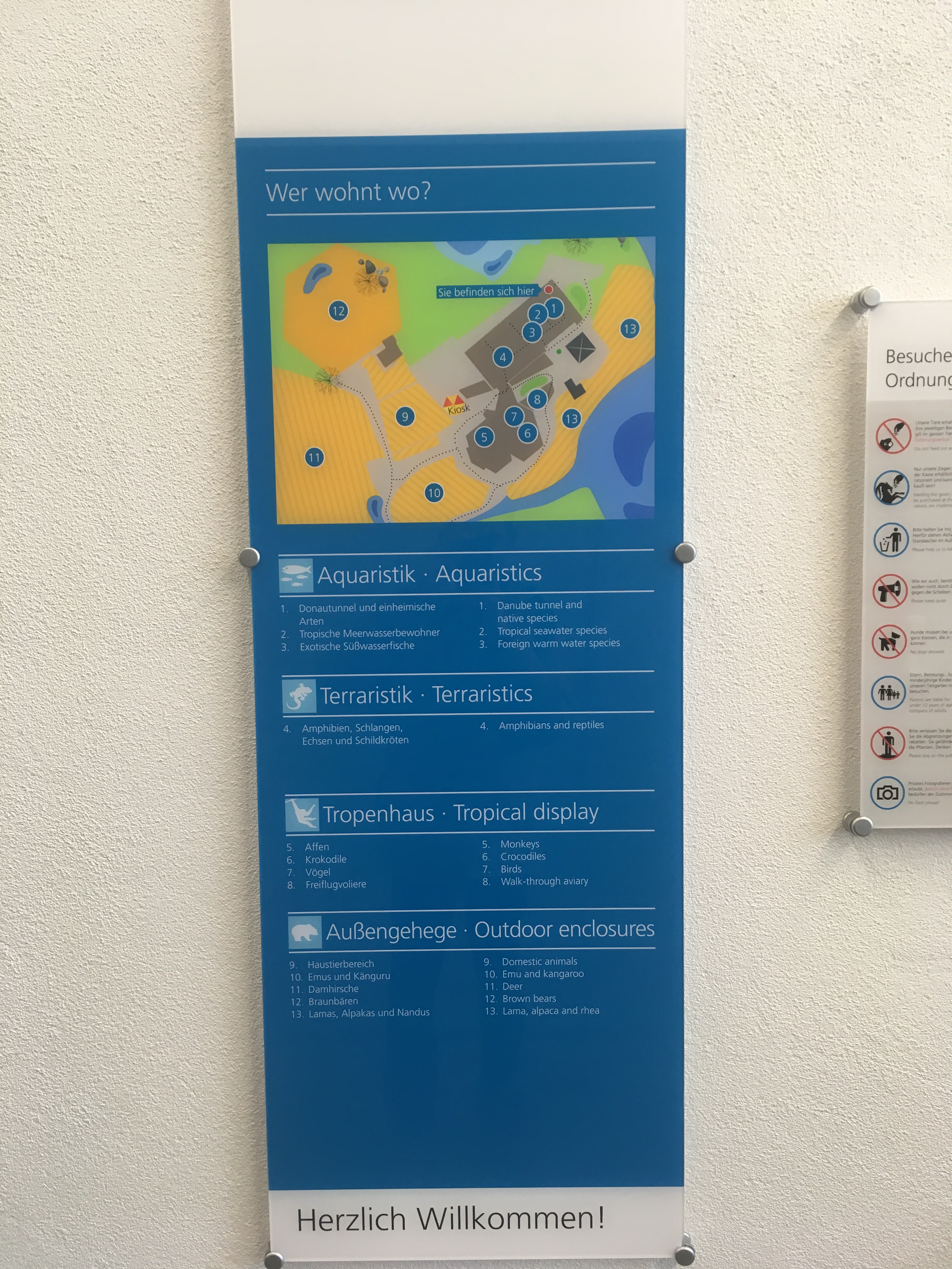 Map of zoo in Ulm showing location of various exhibits.